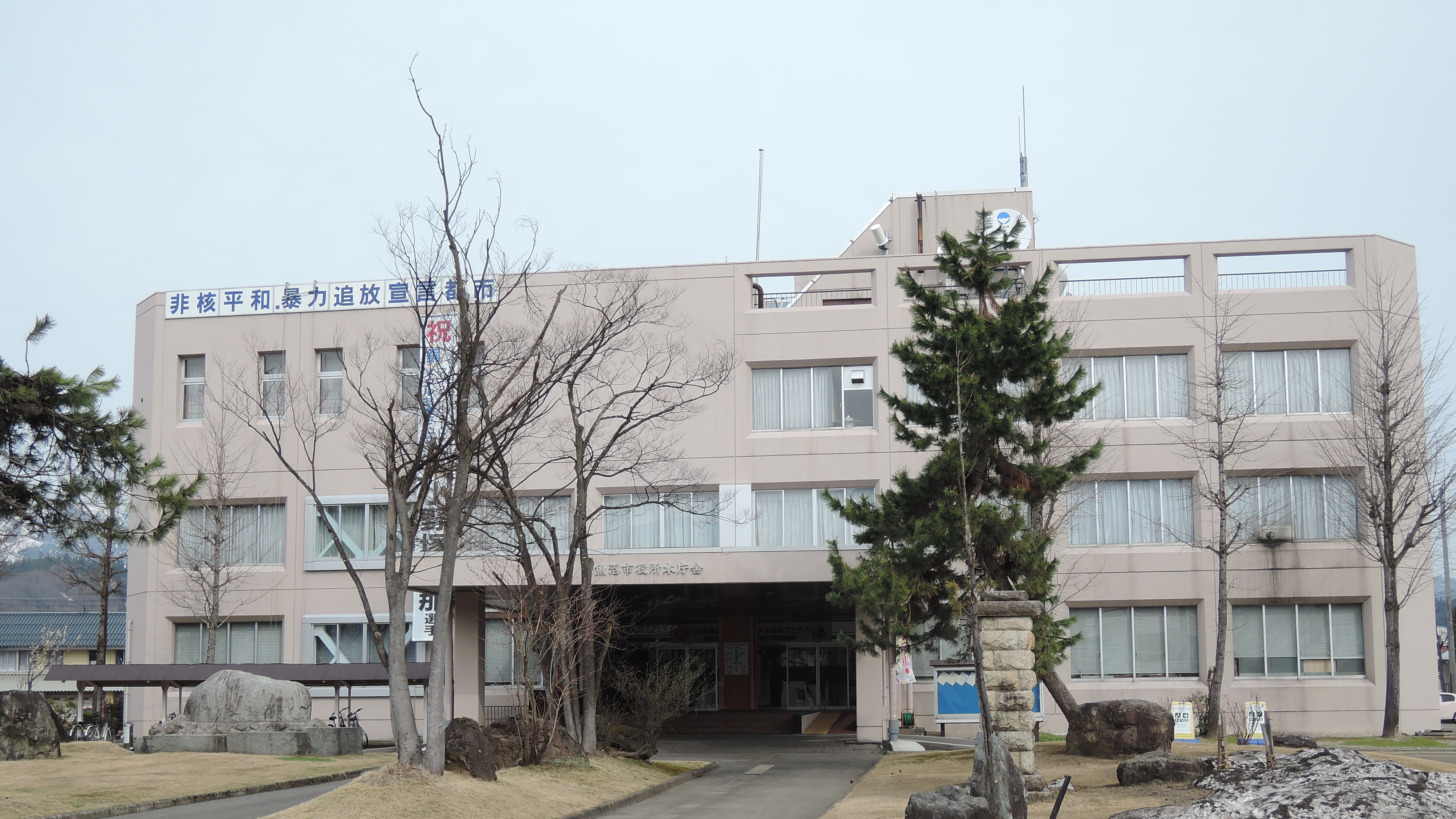 Minami-Uonuma city hall,Niigata prefecture,Japan